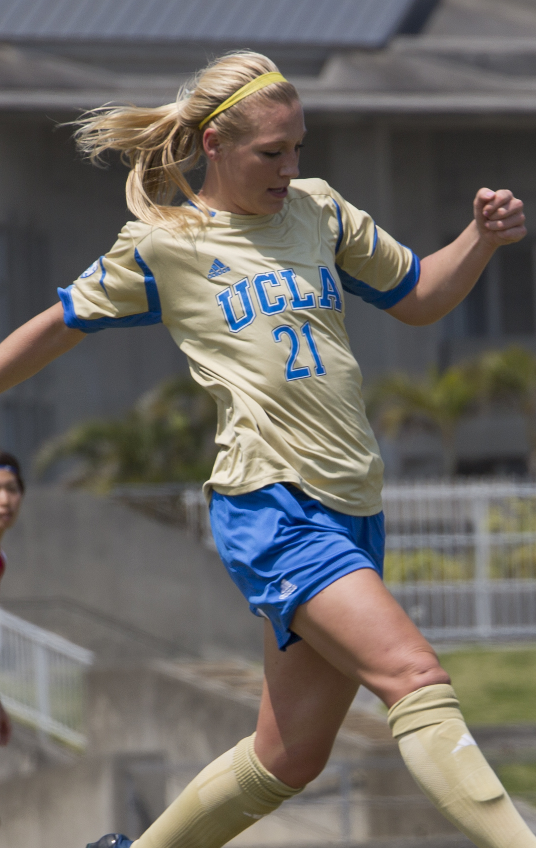 Abigail L. DahlkemperMegan Oyster prepares to kick a soccer ball March 23 while competing in the Family Mart Dream Match at the Okinawa Comprehensive Athletic Park in Awase, Okinawa. The game was played between the International Athletic Club Kobe Leonessa and the University of California, Los Angeles Bruins. “It was a really good experience playing against some of the best players in the world and one of the best club-teams in the world,” said Dahlkemper, a junior defensive player with the UCLA Bruins.